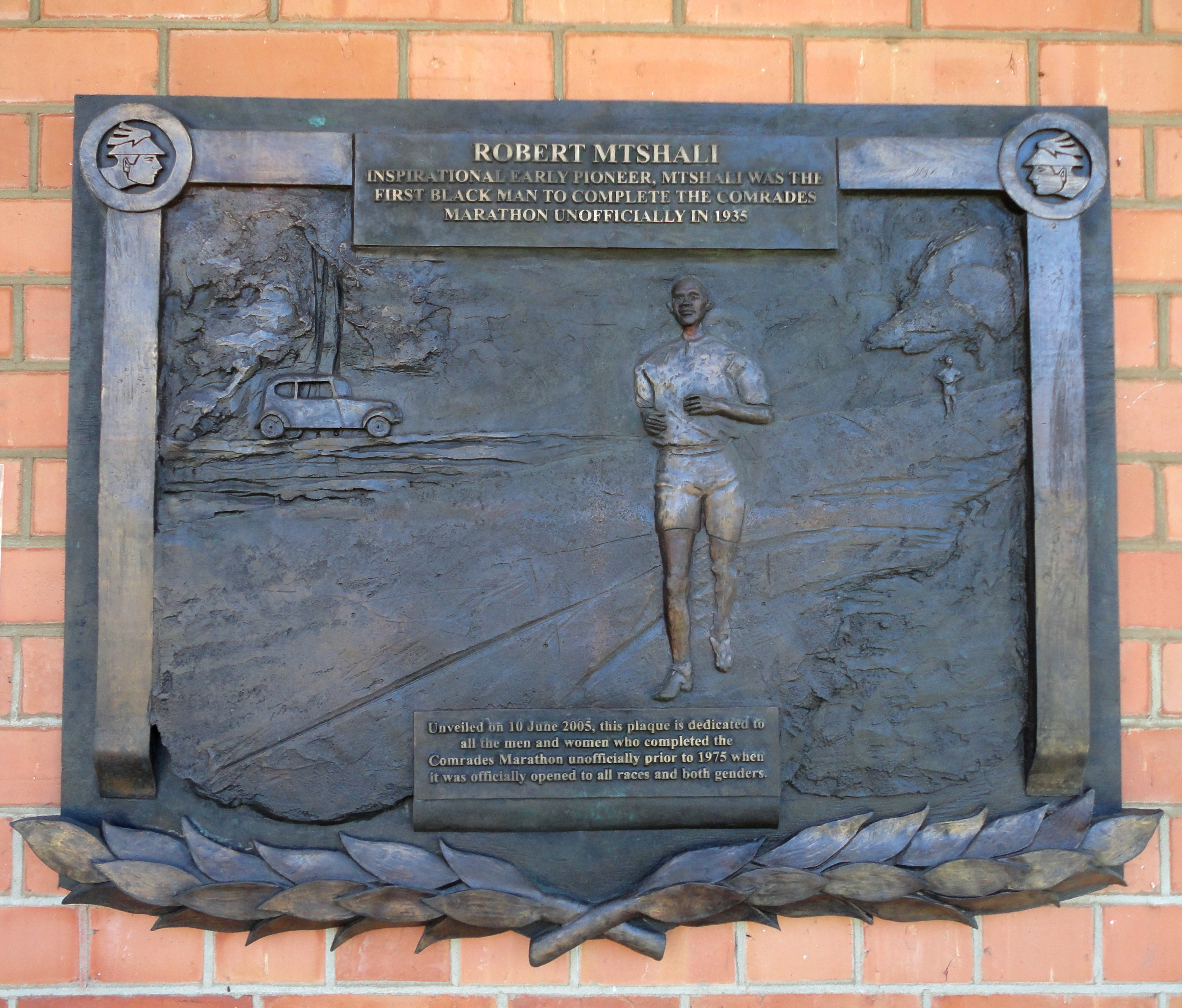 Robert Mtshali, inspirational early pioneer, was the first black man to complete the Comrades Marathon unofficially in 1935. Unveiled on 10 June 2005, the plaque is dedicated to all the men and women who completed the Comrades prior to 1975 when it was officially opened to all races and both genders.